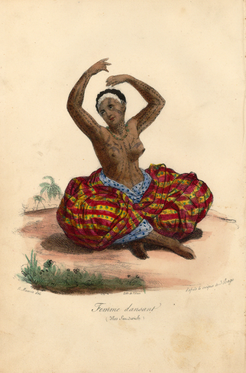 Iles Sandwich, femme de l'ile Mowi dansant (Female dancer, Maui, Sandwich Islands) depicted by Jacques Arago who was the artist abroad the ship Uranie under Louis de Freycinet. From Jacques Arago's rare account of Freycinet's travels around the world from 1817 to 1820. First published in 1822, Arago's account met with much success. This plate is newly drawn by N. Maurin after the orginal sketchbook by Jacques Arago, who had become blind.